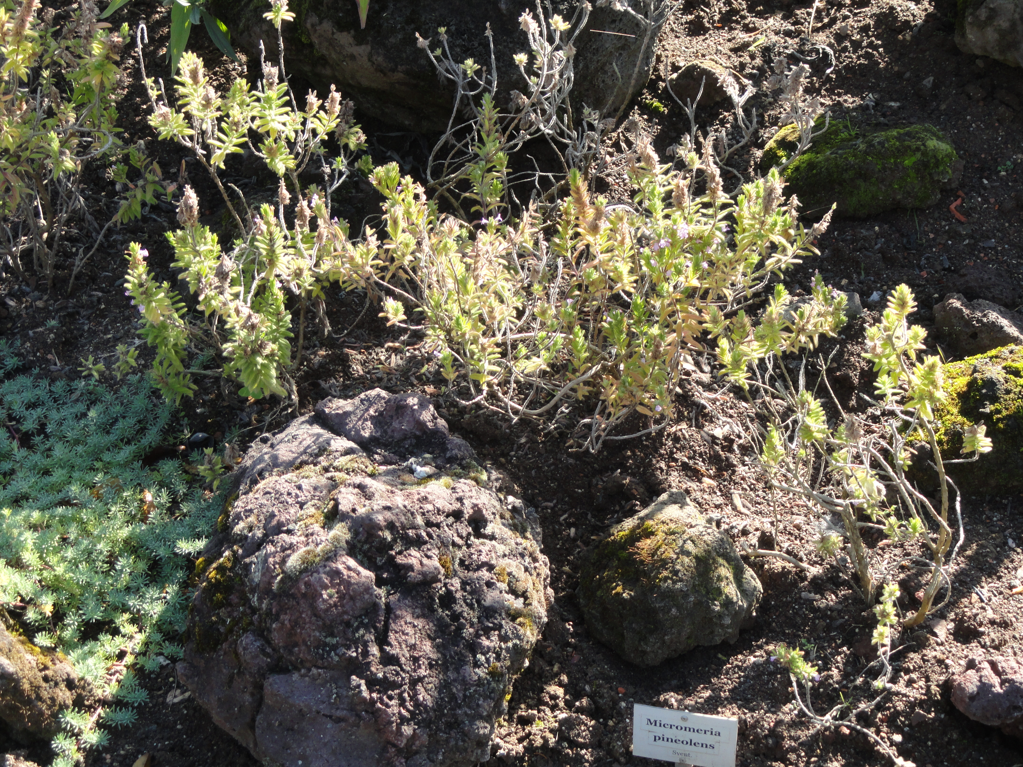 Botanical specimen in the Botanischer Garten, Frankfurt am Main, located at Siesmayerstraße 72, Frankfurt am Main, Germany.